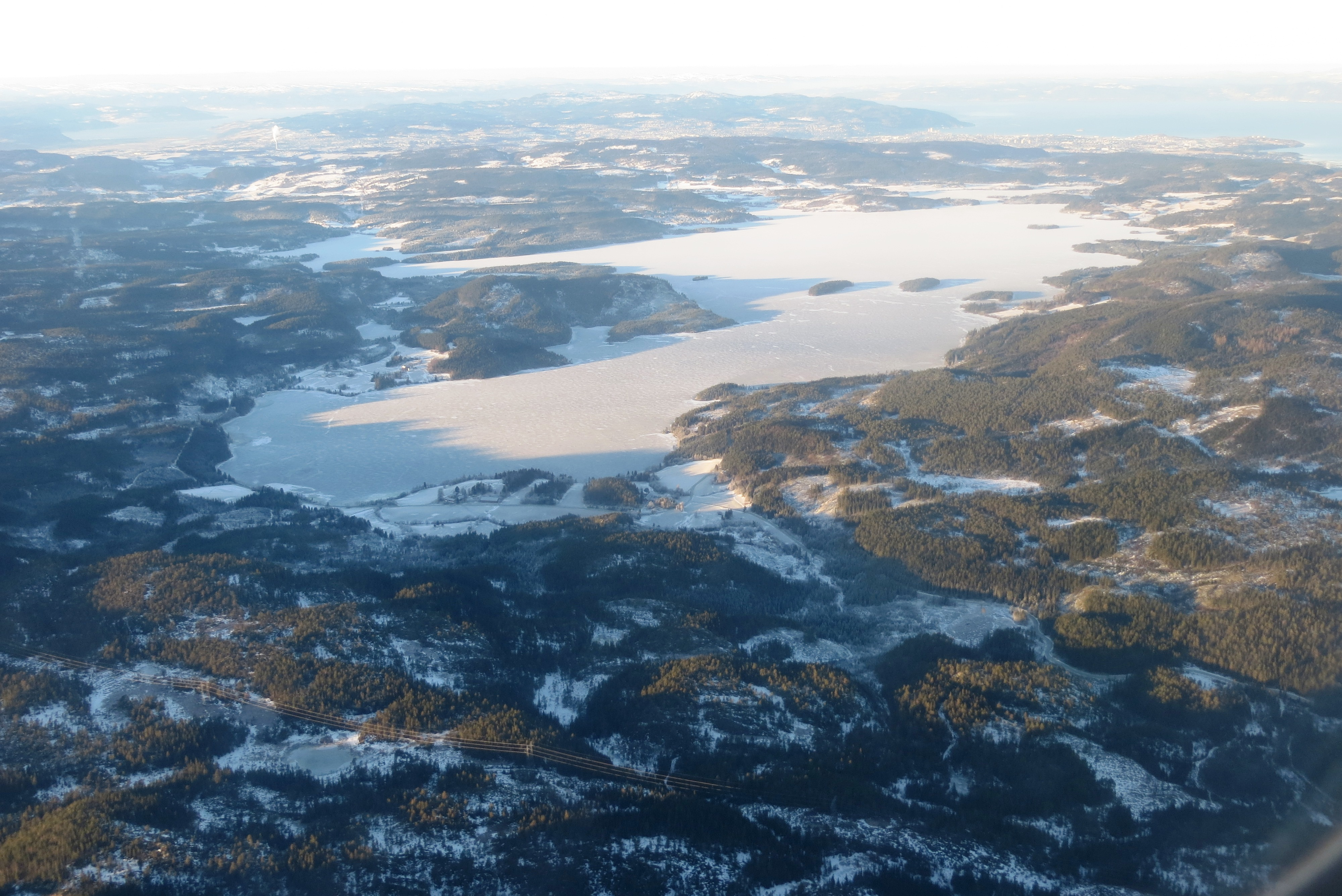 Aerial view from the (south)east towards (north)west, over the eastern parts of Trondheim municipality - Norway